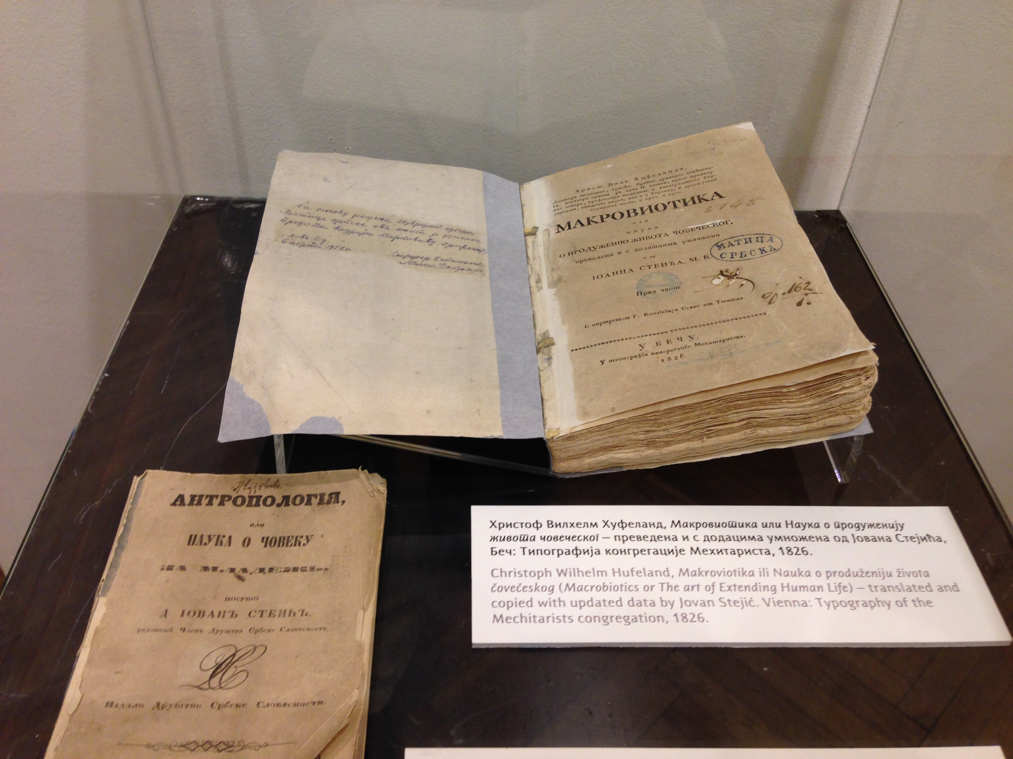 History of Serbian medicine Dr Jovan Stejić, literary works Srpski (latinica): Istorija srpske medicine Dr Jovan Stejić, književna dela prvog srpskog lekara iz 19 veka.